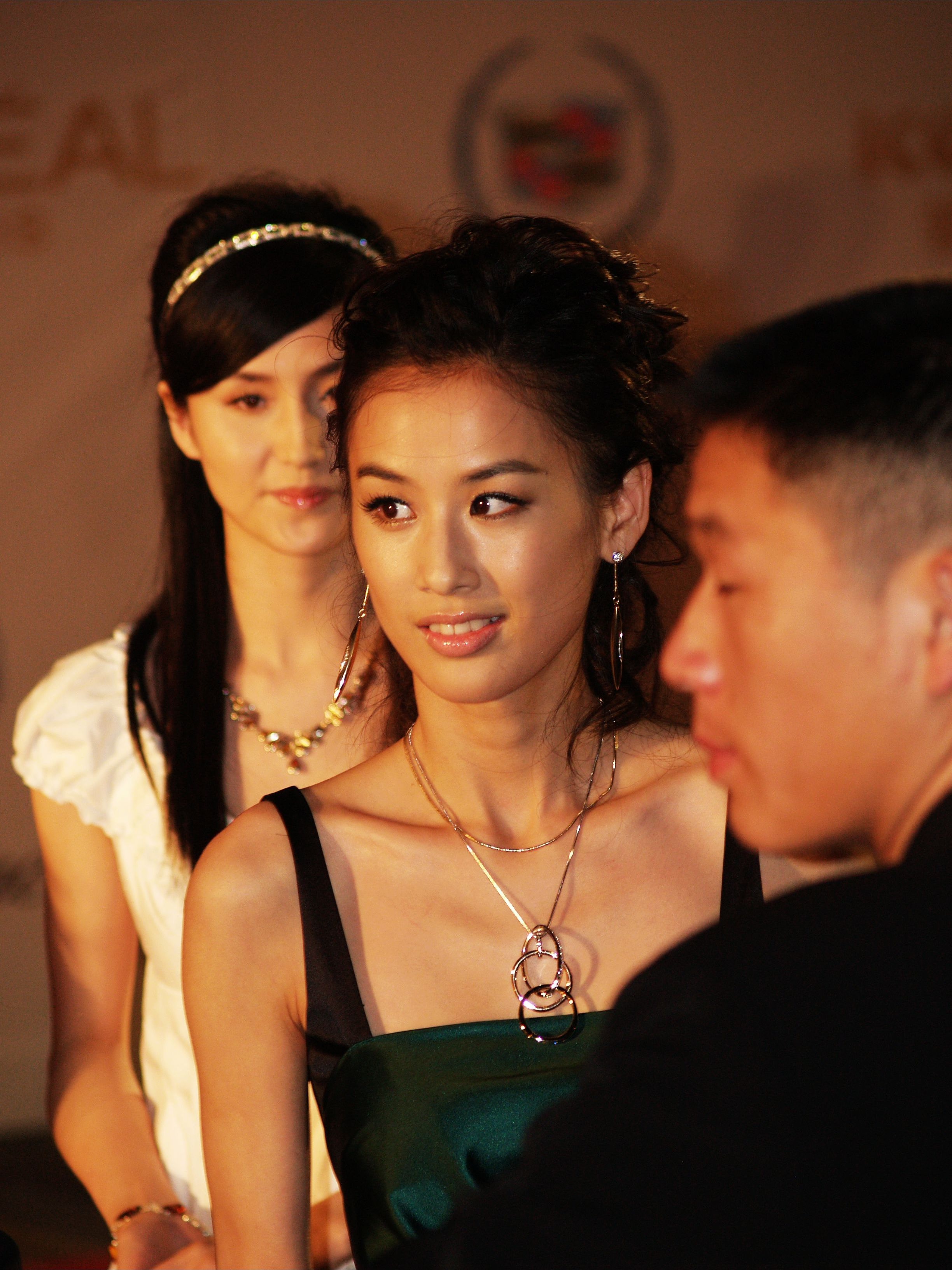 Chinese actress Huang Shengyi 中国大陆女演员黄圣伊